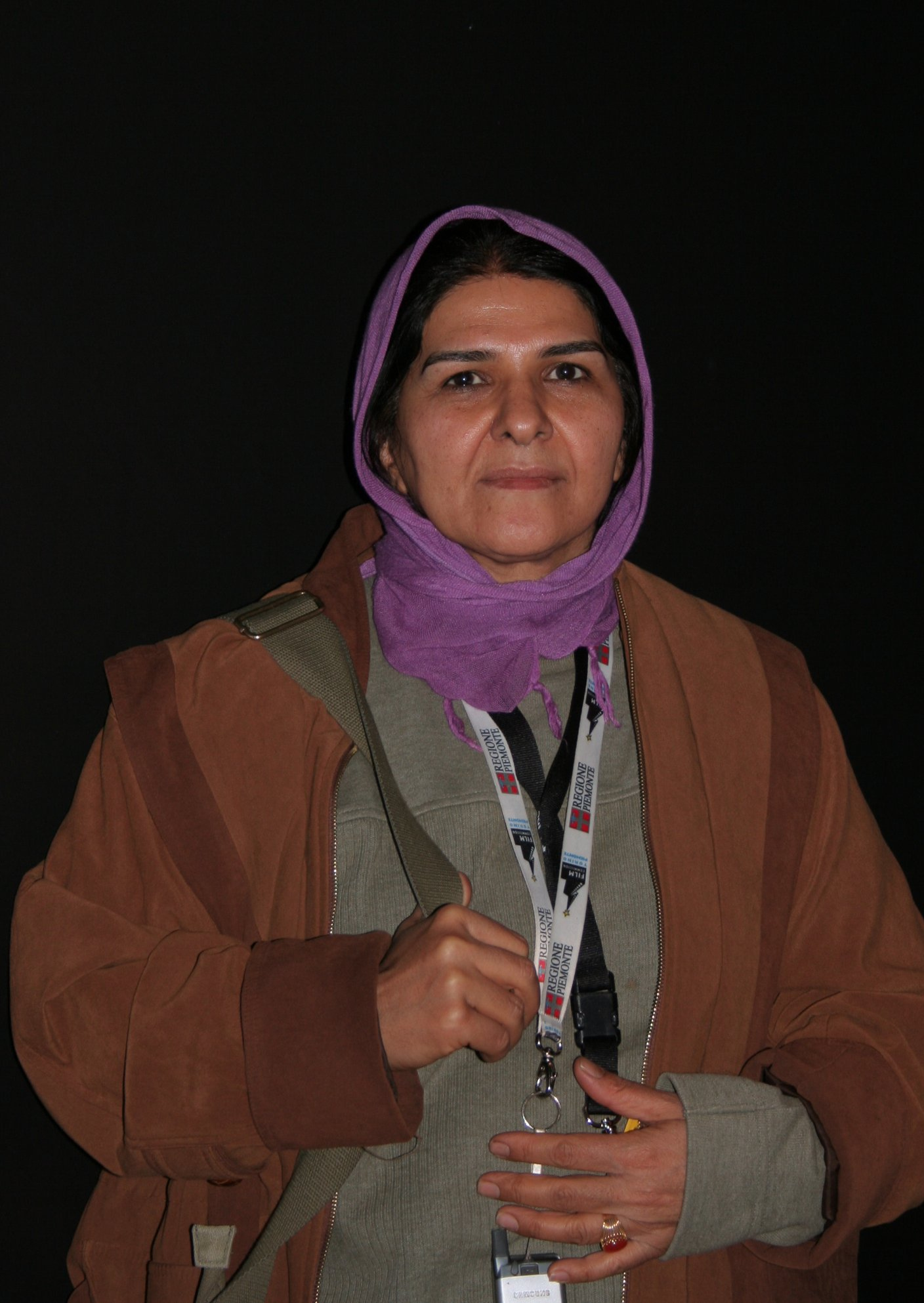 Ensieh Shah-Hosseini at International asian movies festival in Vesoul